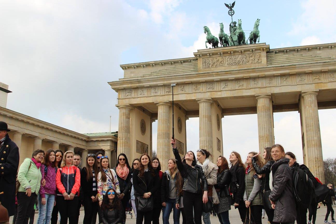 ssos dsa trebisov